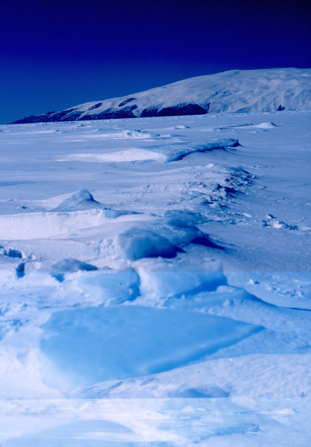 Ross Sea, Antarctica